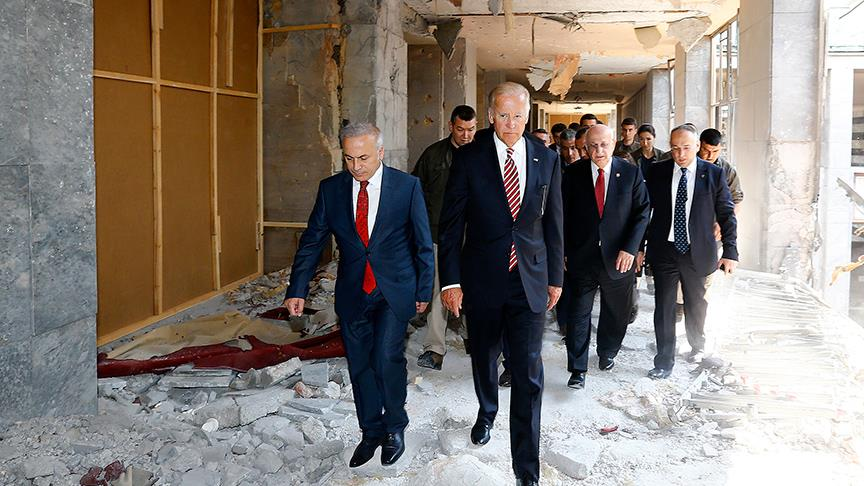 Joe Biden tours the bombed sections of the Turkish Grand National Assembly Ankara 24 August 2016